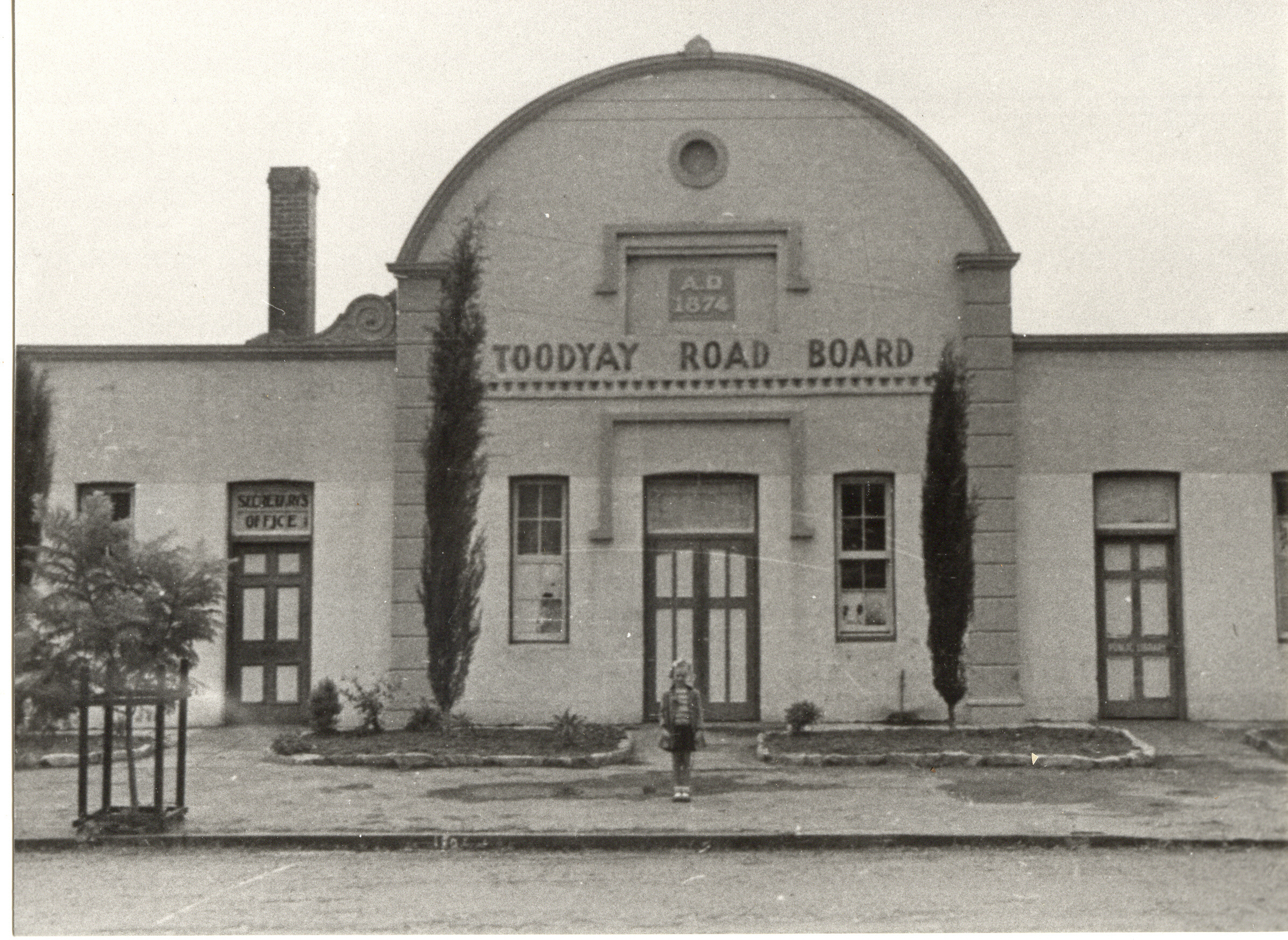 A black & white photo of the Toodyay Road Board Chambers building - formerly the Mechanics Institute - in Stirling Terrace. Since 1959 this building has been the home of the Toodyay Public Library. Centre to the façade beneath an attached adornment is the date. AD 1874. There are 3 doors at intervals - one to the left has Secretary's office sign above - the central door is a double one to either side of which is a window - one to right has a sign (possibly Public Library) on middle crossways panel. A child is standing to the centre and in front of central door. 2 pencil pines are either side of windows and a small shrub tree to left near street edge.